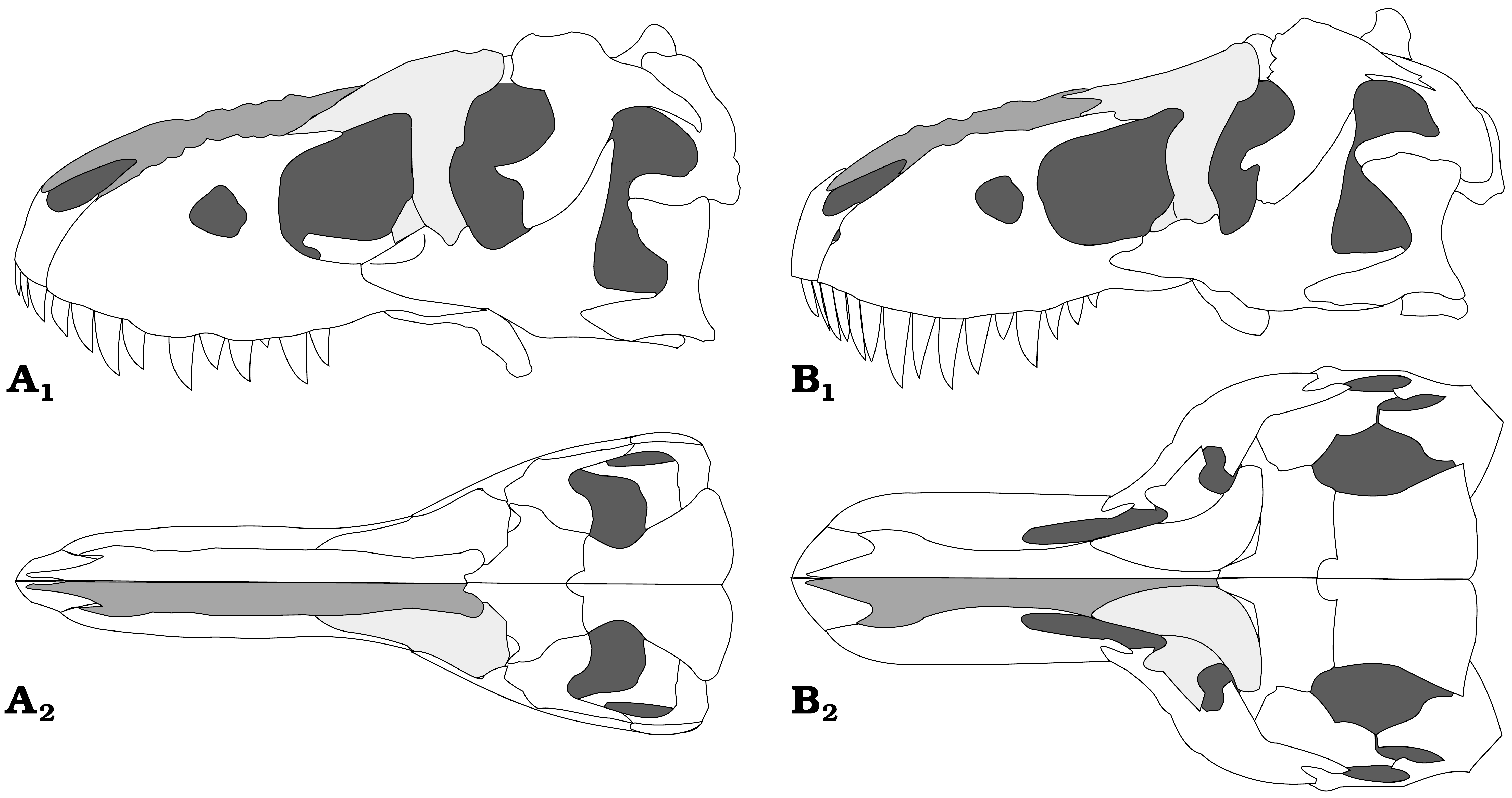 A. Generalized skulls of Tarbosaurus bataar in lateral (A1) and dorsal (A2) views. B. Tyrannosaurus rex in lateral (B1) and dorsal (B2) views com− pared (not to scale). Light grey, lacrimal; dark grey, nasal.